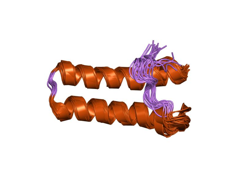 Cartoon representation of the molecular structure of protein registered with 1fyj code.